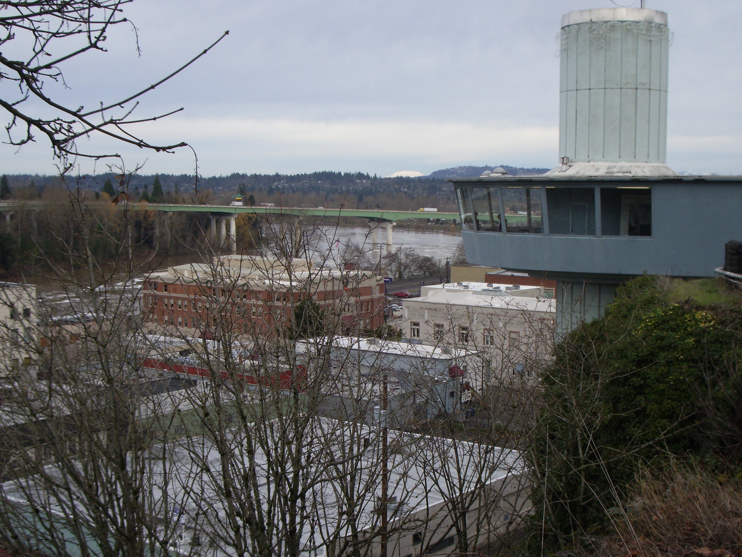 Photo of top of Oregon City Municipal Elevator looking over downtown Oregon City and Willamette River. The masonary building at center is the Clackamas County Courthouse. Also visible are Abernethy Bridge, which carries Oregon I-205, and Mount St. Helens.